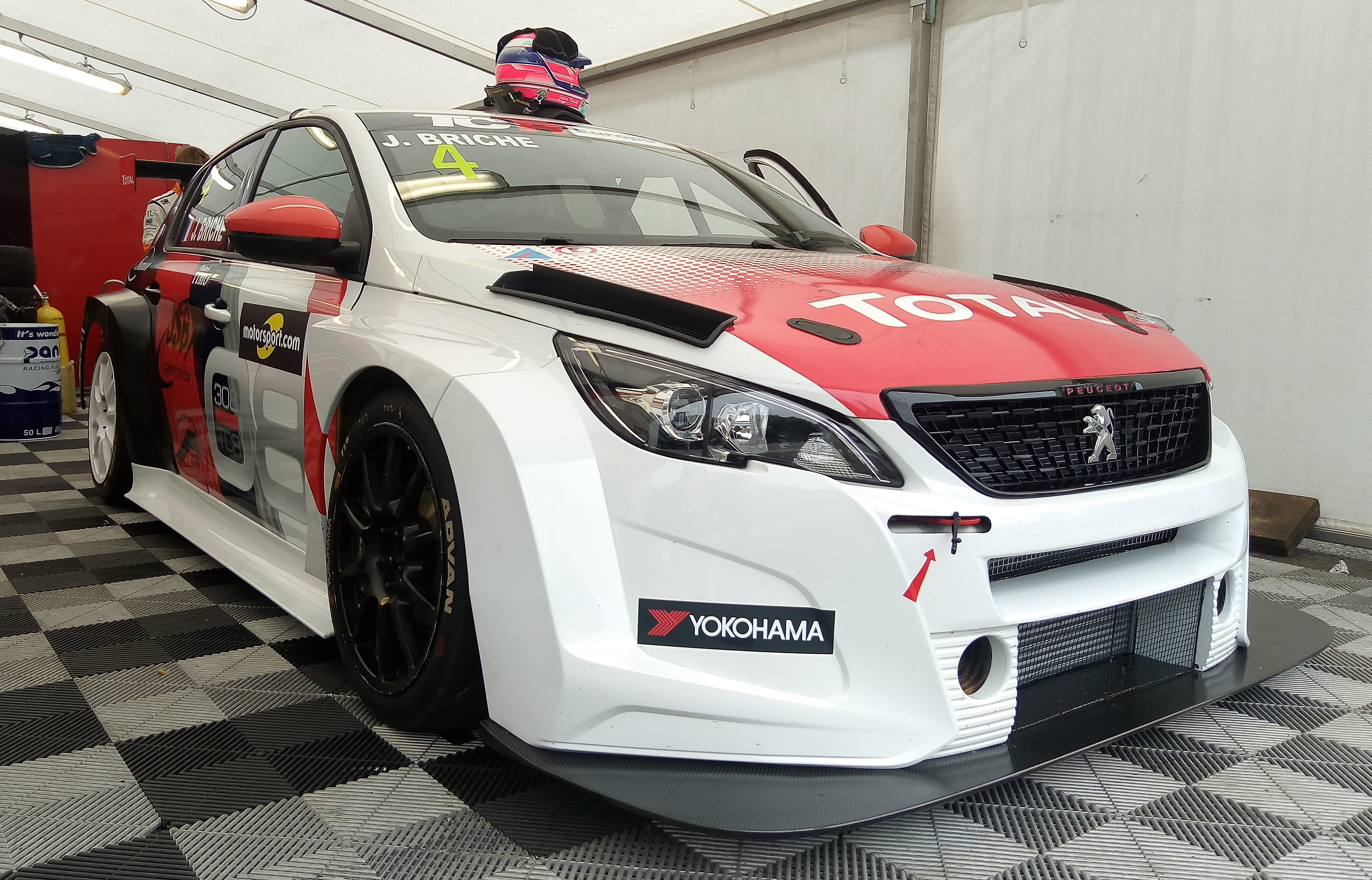 Julien Briché (JSB Compétition) at the 2018 TCR Europe Series round at Spa-Francorchamps.